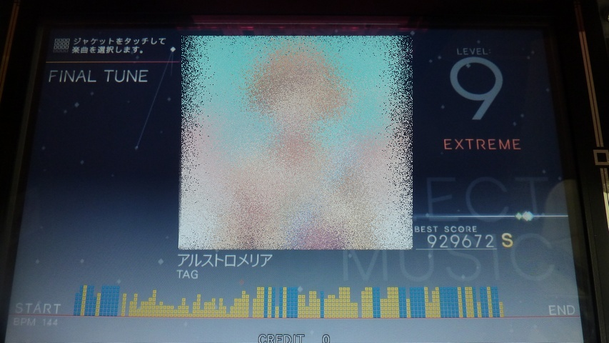 jubeat copious - Monitor.